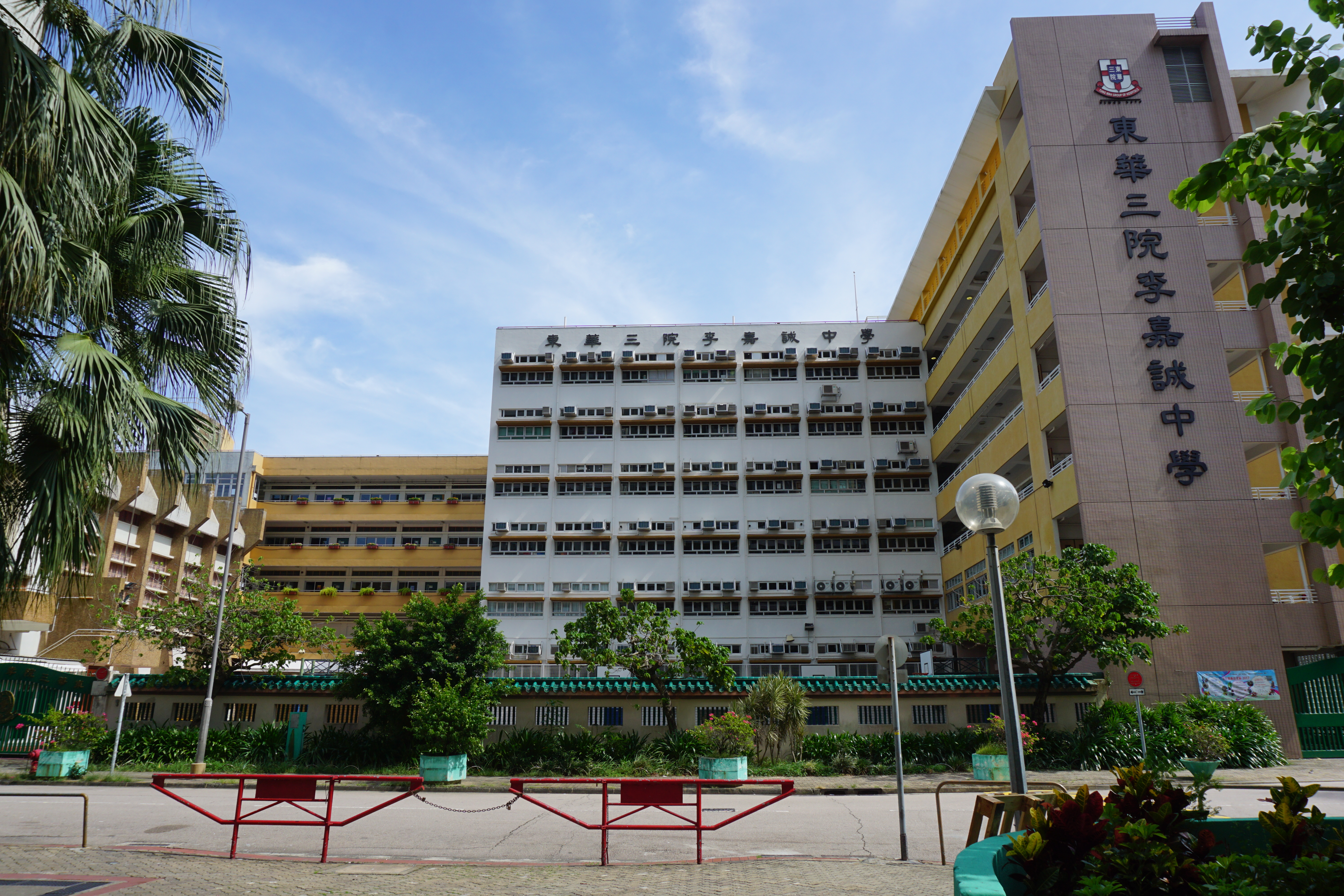 T.W.G.Hs Li Ka Shing College in Fanling, Hong Kong.